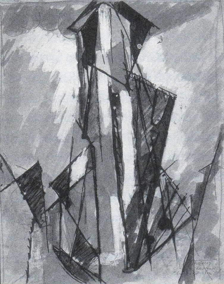 "Sur le Flat-iron" — graphite, ink and gouache by Albert Gleizes, 1916. This work by Albert Gleizes is in the permanent collection of The University of Michigan Museum of Art. The work is signed and dated in black ink, l.r.: AlbGleizes/New York/ "Sur le flat iron" 16 Medium: graphite, ink, gouache, and white heightening on tannish-gray wove paper Dimensions: 27.2 cm x 21.1 cm (10 11/16 in. x 8 5/16 in.) Abstraction of the Flatiron Building in New York City.